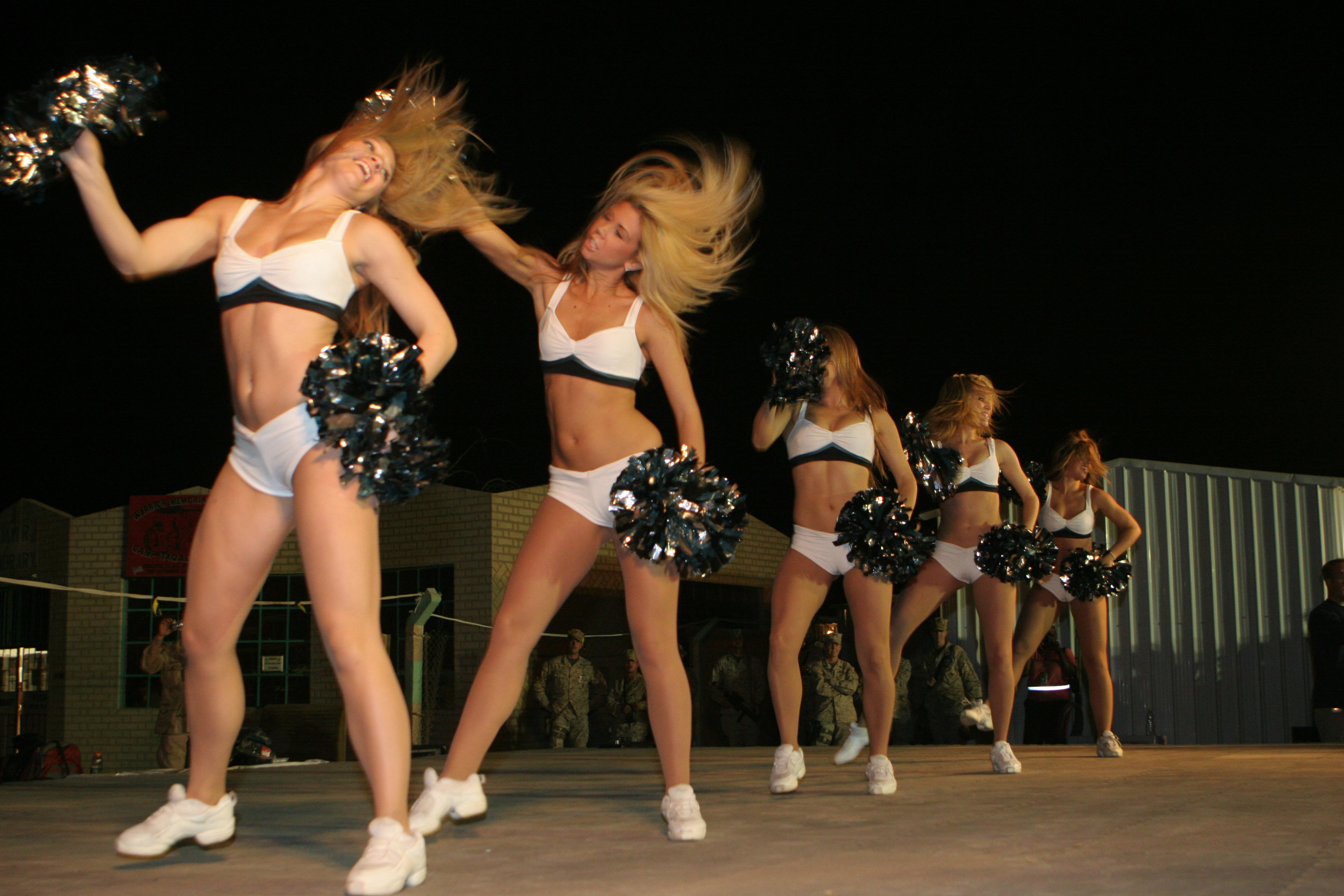 AT-TAQADDUM, Iraq (June 7, 2008) Philadelphia Eagles Cheerleaders dance in unison during their opening routine for service members here. The five cheerleaders are touring Iraq to show their support for the troops and to help boost morale. The group performed a 45 minute act which included costume changes and interaction with the troops. They held a push-up competition and a cheer-off in which service members competed as part of their show. The group stayed long after their performance, posing for photos after the show with their fans.